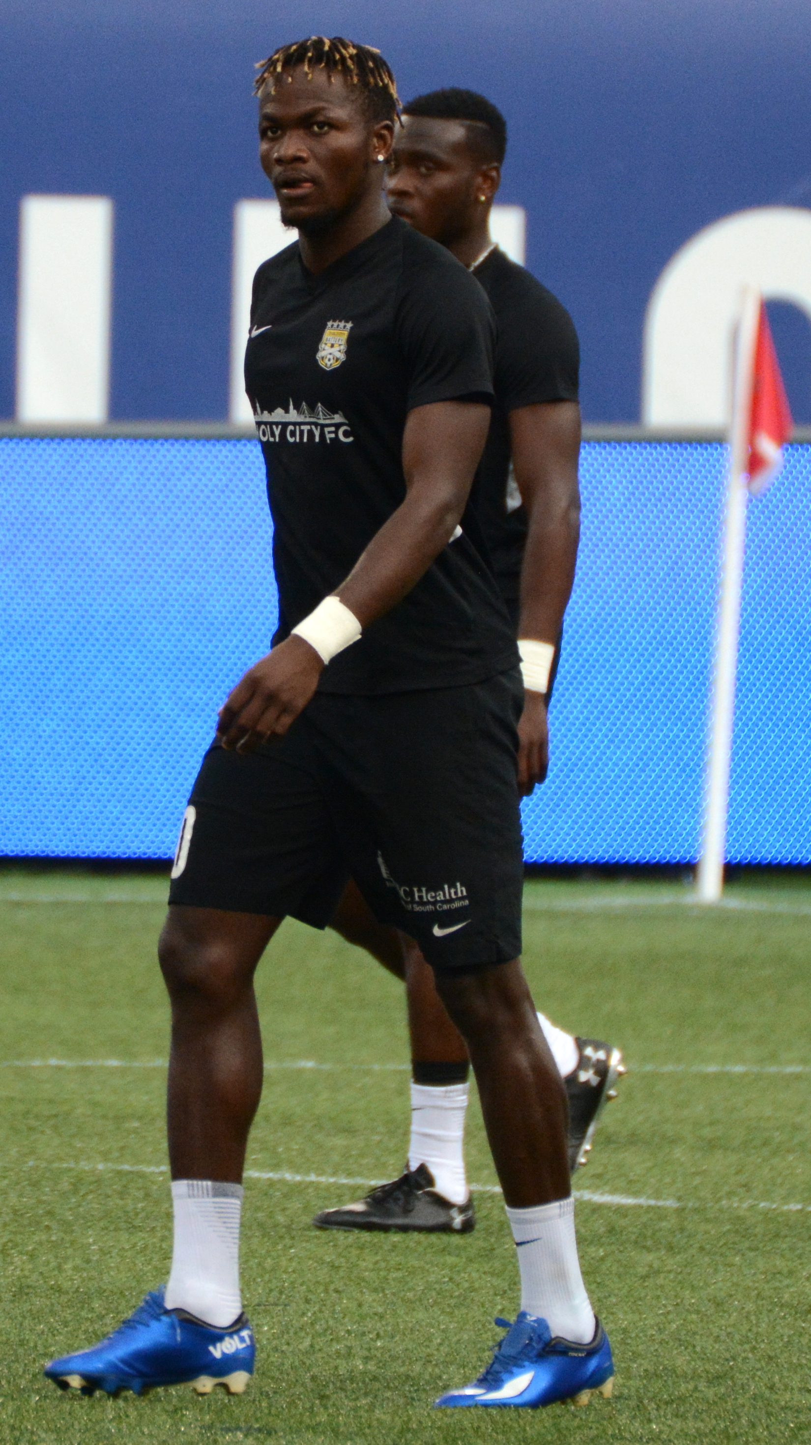 Taken during a USL regular season match between FC Cincinnati and Charleston Battery at Nippert Stadium in Cincinnati, USA on August 18, 2018.